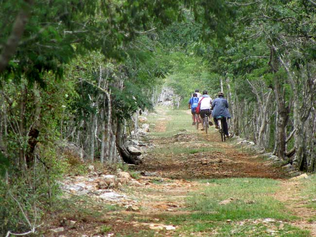 The remnant of an ancient Mayan sacbe (roadway) in the Yucatán. It leads to a nearby cenote and is said to extend to the ruins at Mayapán.